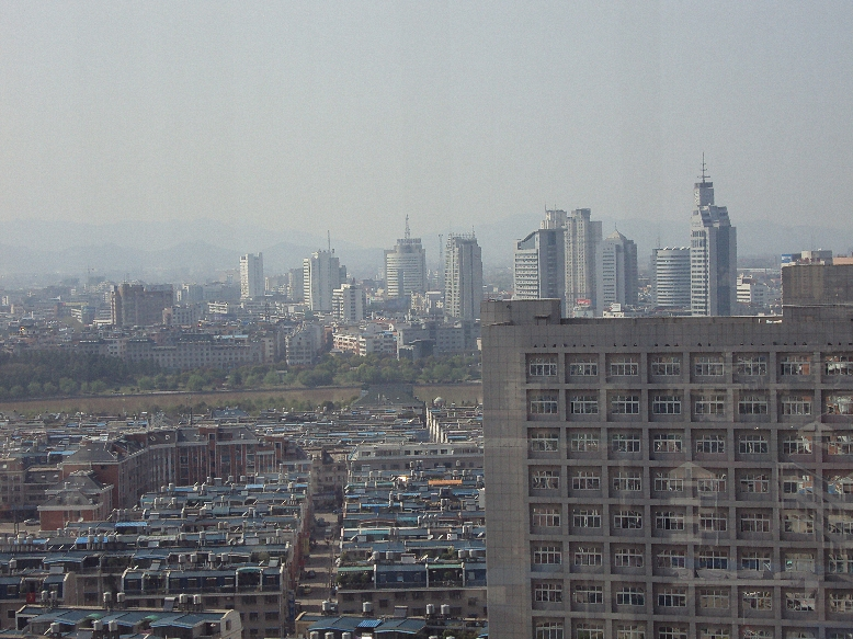 photo of yiwu downtown buildings